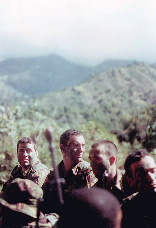 Members of 2 Platoon, A Company, and The Bermuda Regiment, on exercise in the Blue Mountains, in 1996. The Platoon Commander, Lieut. William White (second from left), was subsequently the Commanding Officer (CO) of the Bermuda Regiment, with the rank of Lieutenant Colonel.